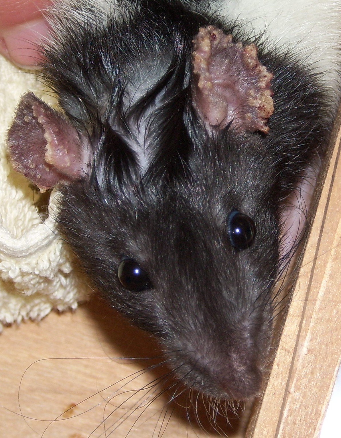 scabies in a rat